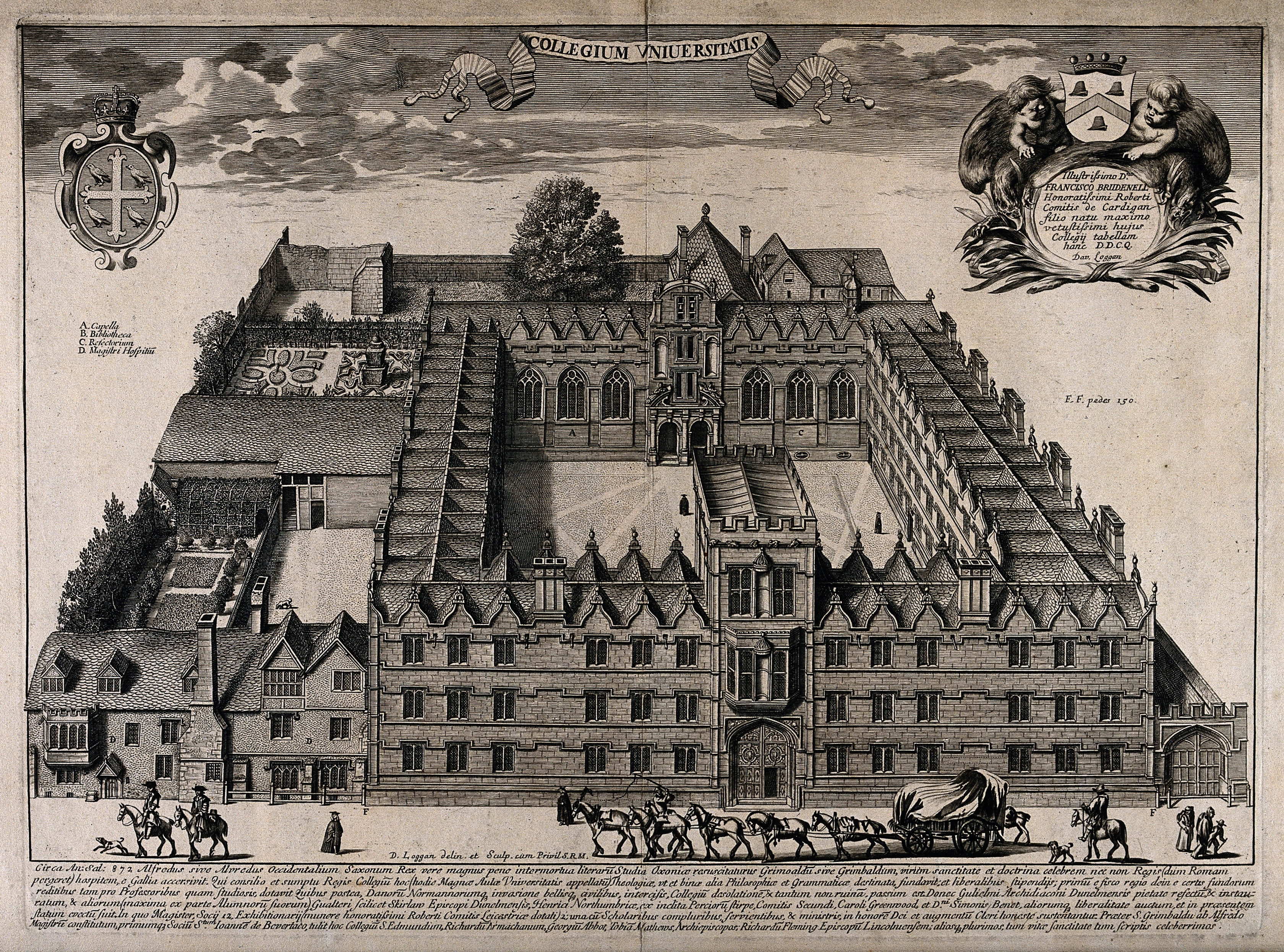 University College, Oxford: aerial view with key and coats of arms. Line engraving by D. Loggan after himself. Iconographic Collections Keywords: University College (Oxford); Francis Brudenell; University of Oxford; David Loggan